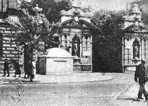 Month before WarsawUprising: Bunker in front of gate to University of Warsaw converted to a base for Wehrmacht viewed from Krakowskie Przedmieście Street.